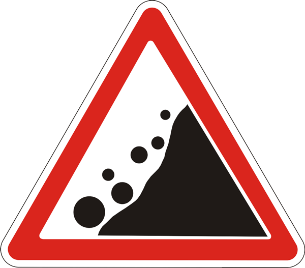 Falling roacks.